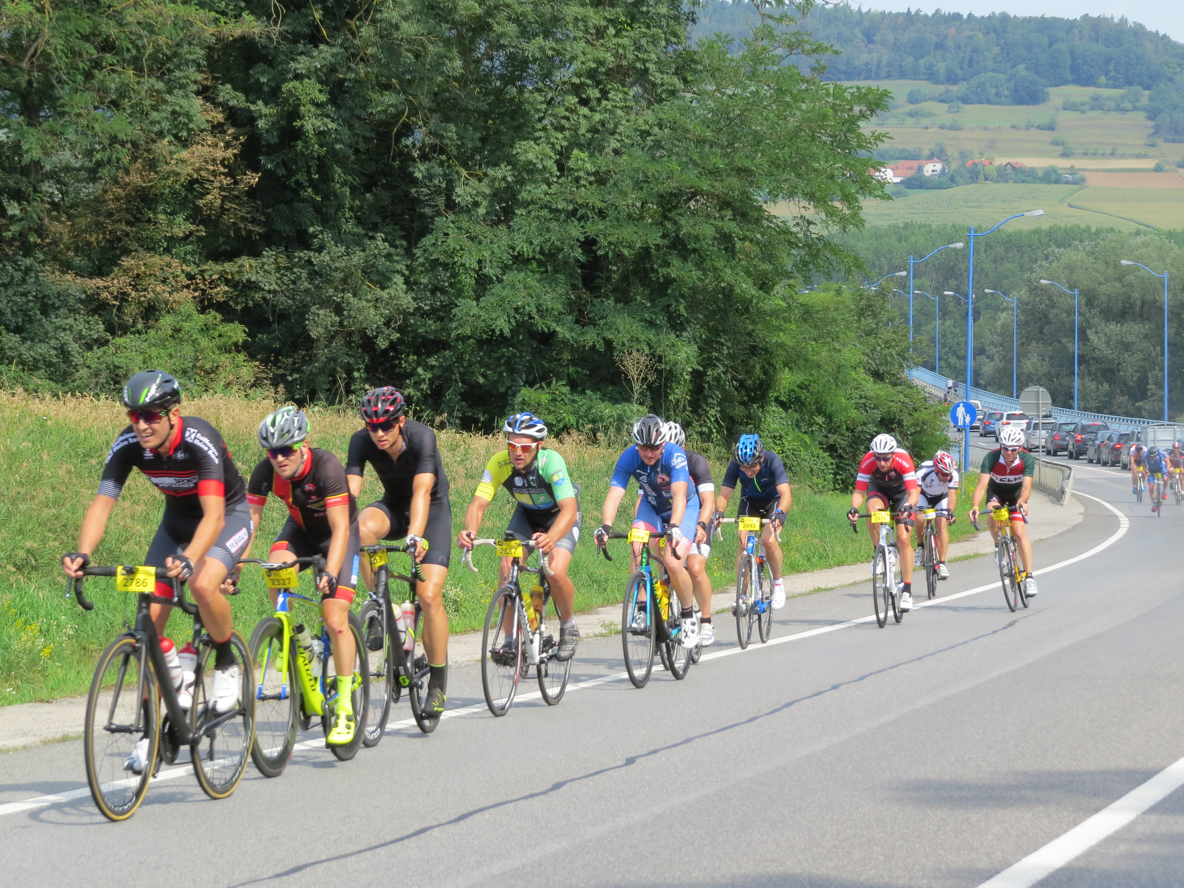 Wachauer Radtage 2018 in Lower Austria